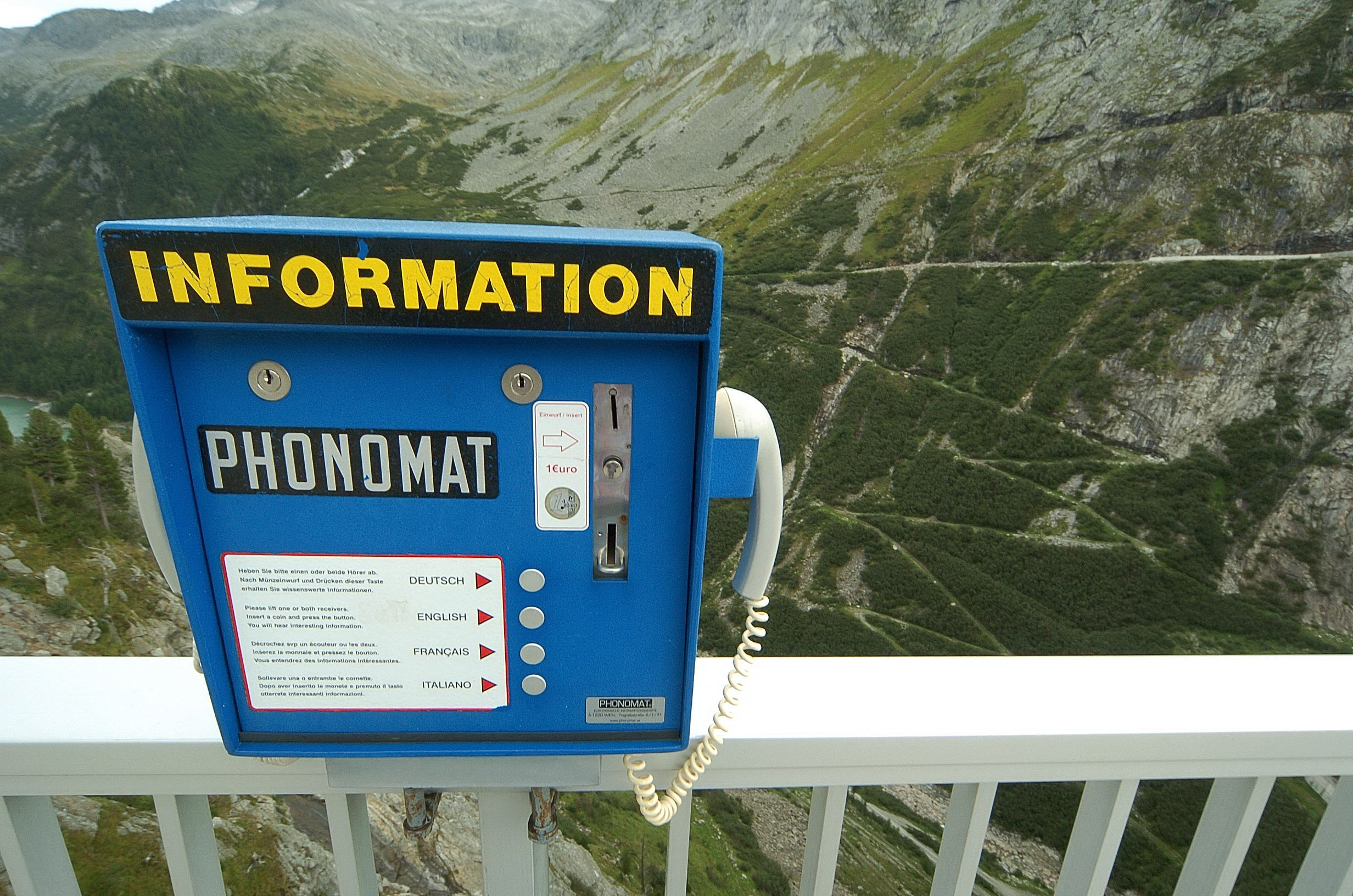 Info-box at the water reservoir`s concrete dam of the Malta powerplant-system, community Malta, district Spittal on the Drau, Carinthia, Austria